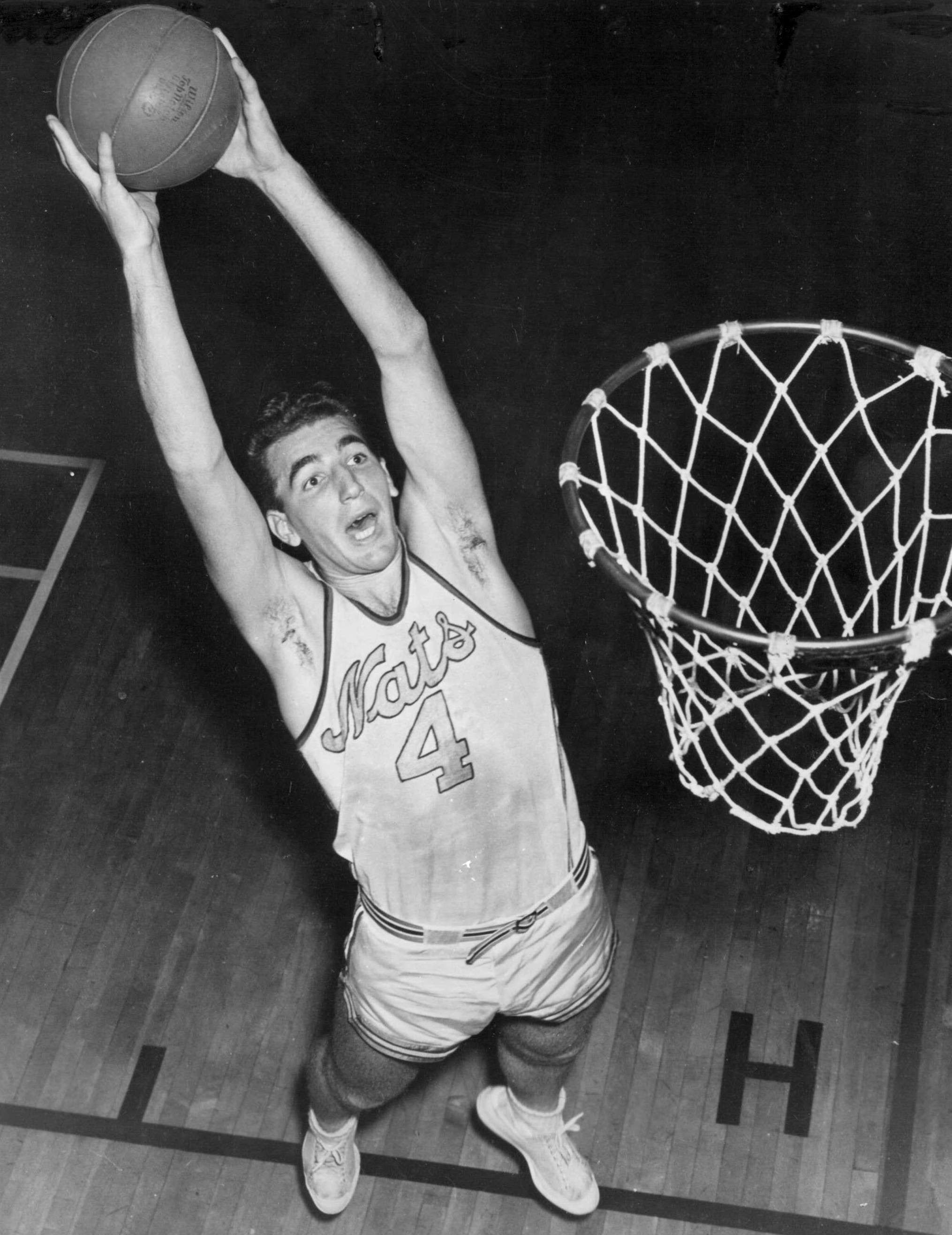 Professional basketball player Dolph Schayes